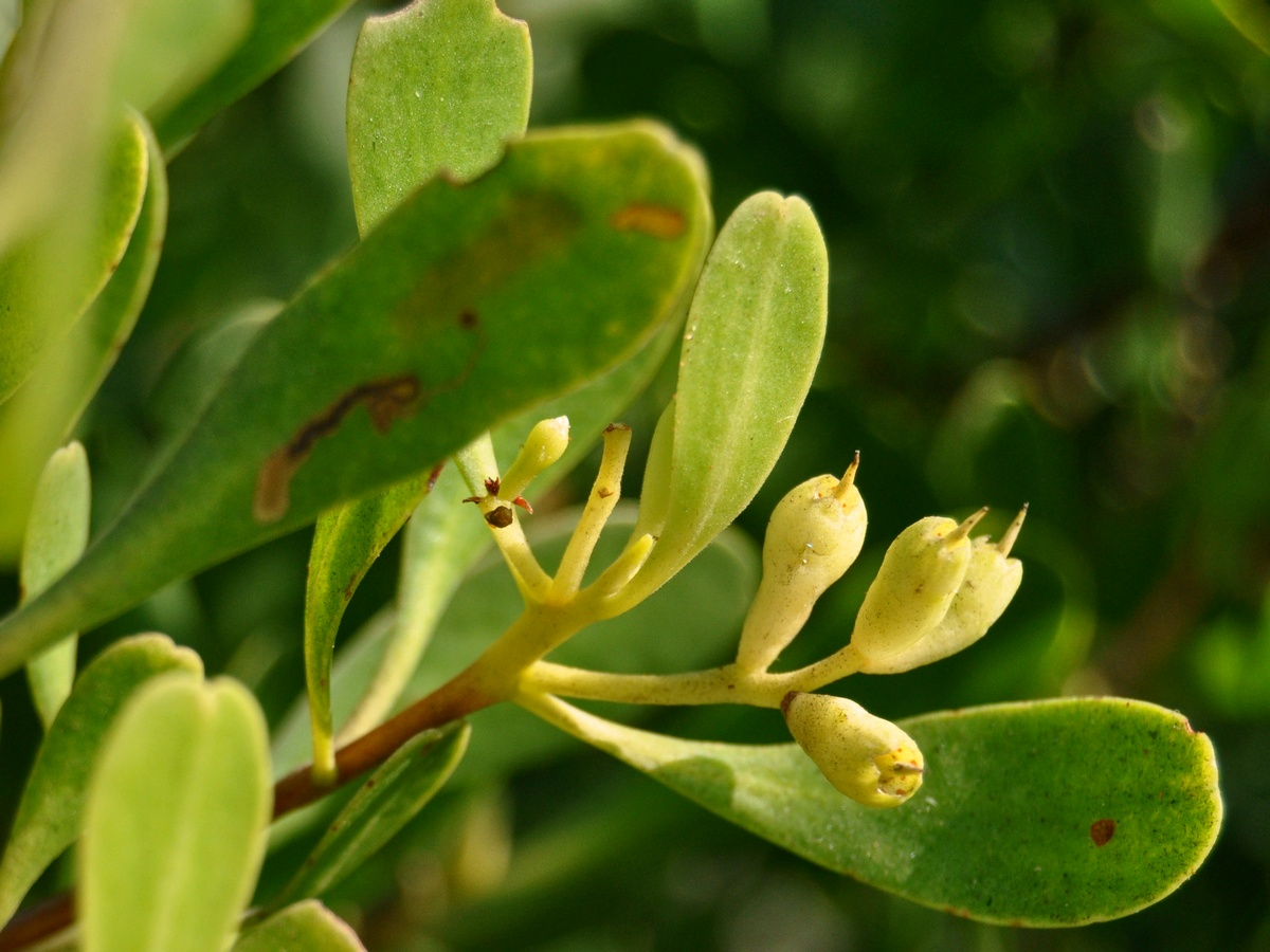 Young fruits of Black Mangrove (Lumnitzera racemosa); from Bama Beach, Baluran National Park, East Java, Indonesia